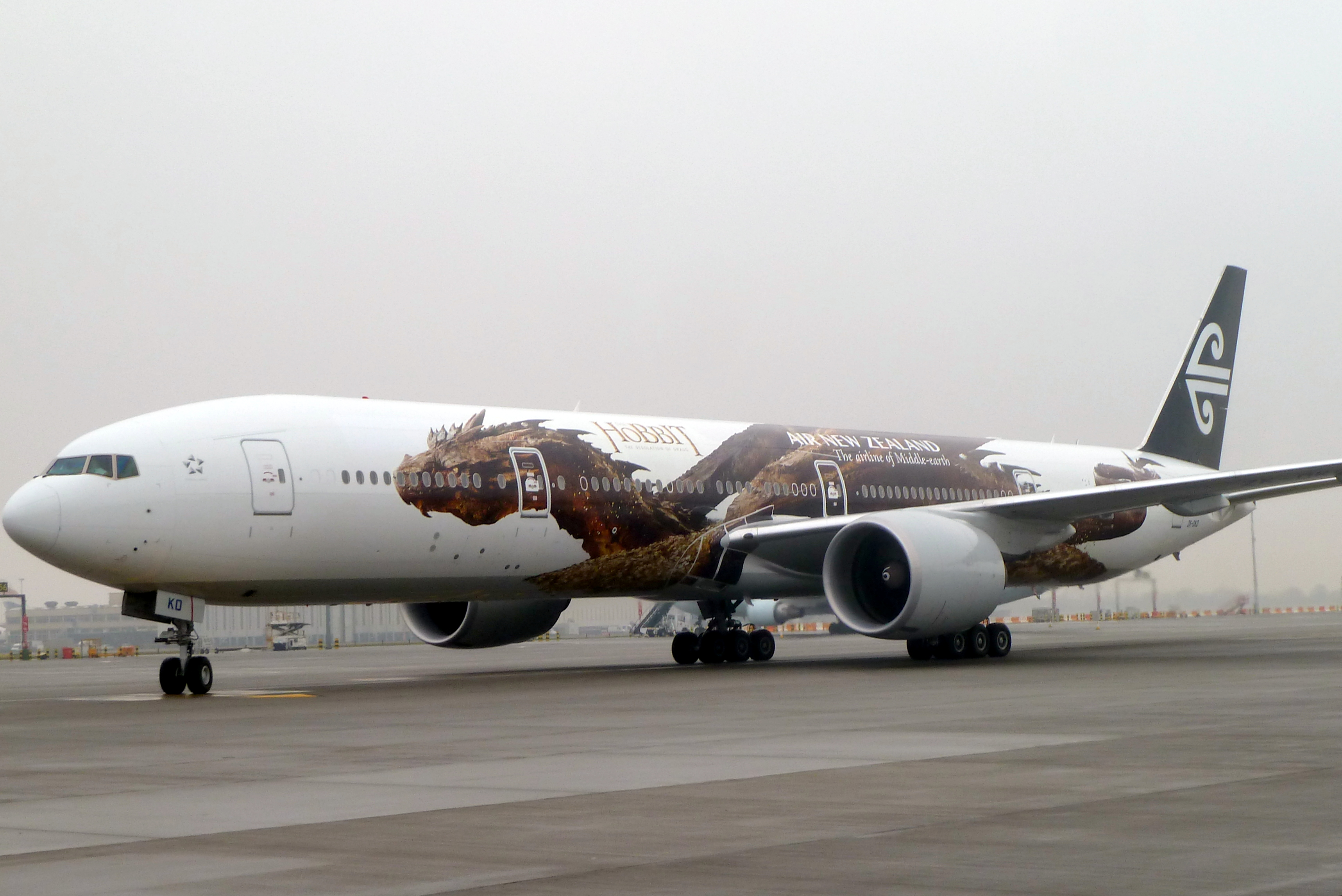 ZK-ONO B773 ANZ pulling on stand 248 emblazoned with the new Hobbit livery "SMAUG".